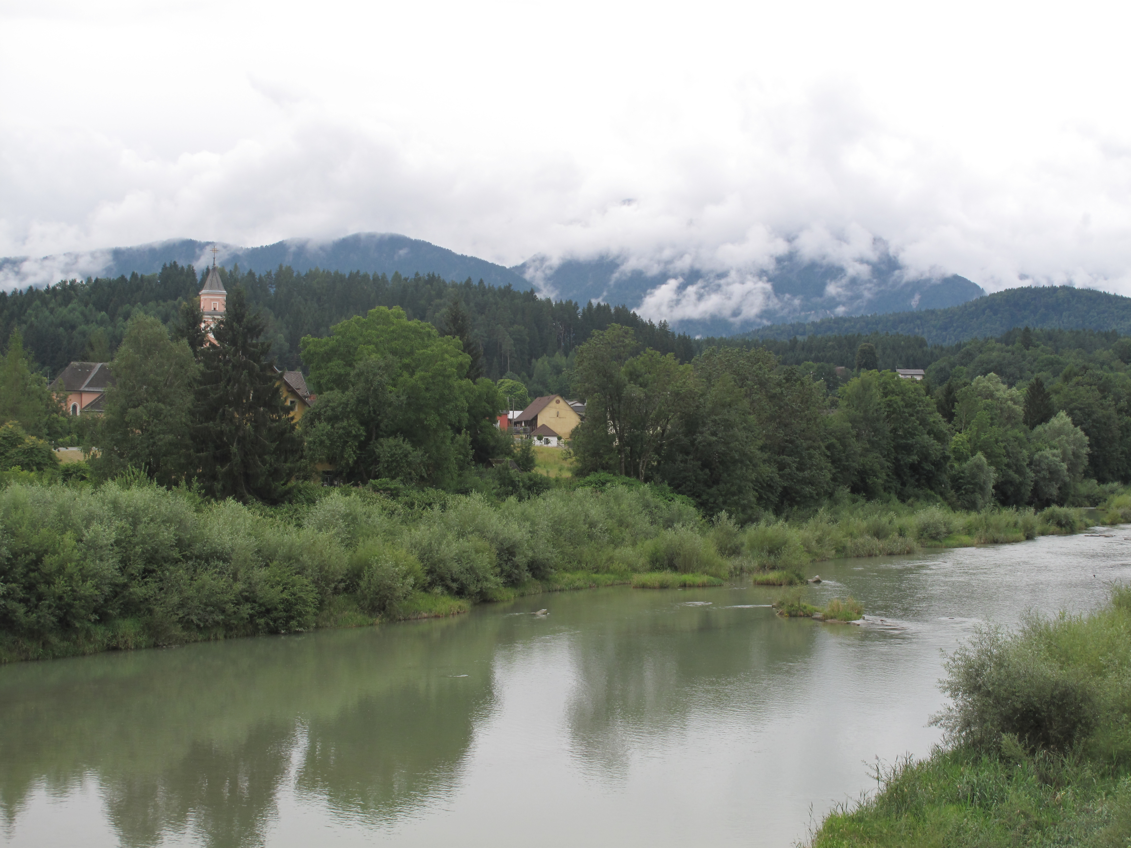 near Rosegg, river: the Drau